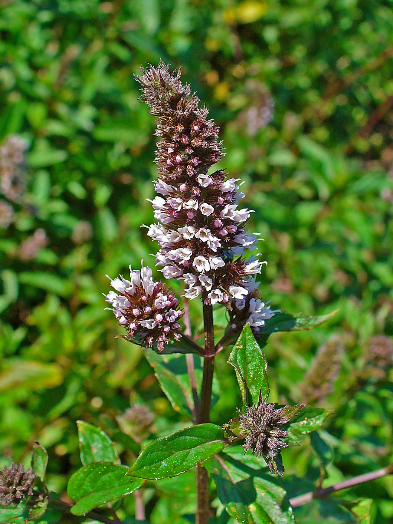 Mentha x piperita, Lamiaceae, Peppermint, inflorescences.